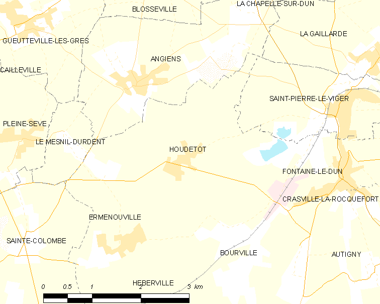 Map of French municipality Houdetot